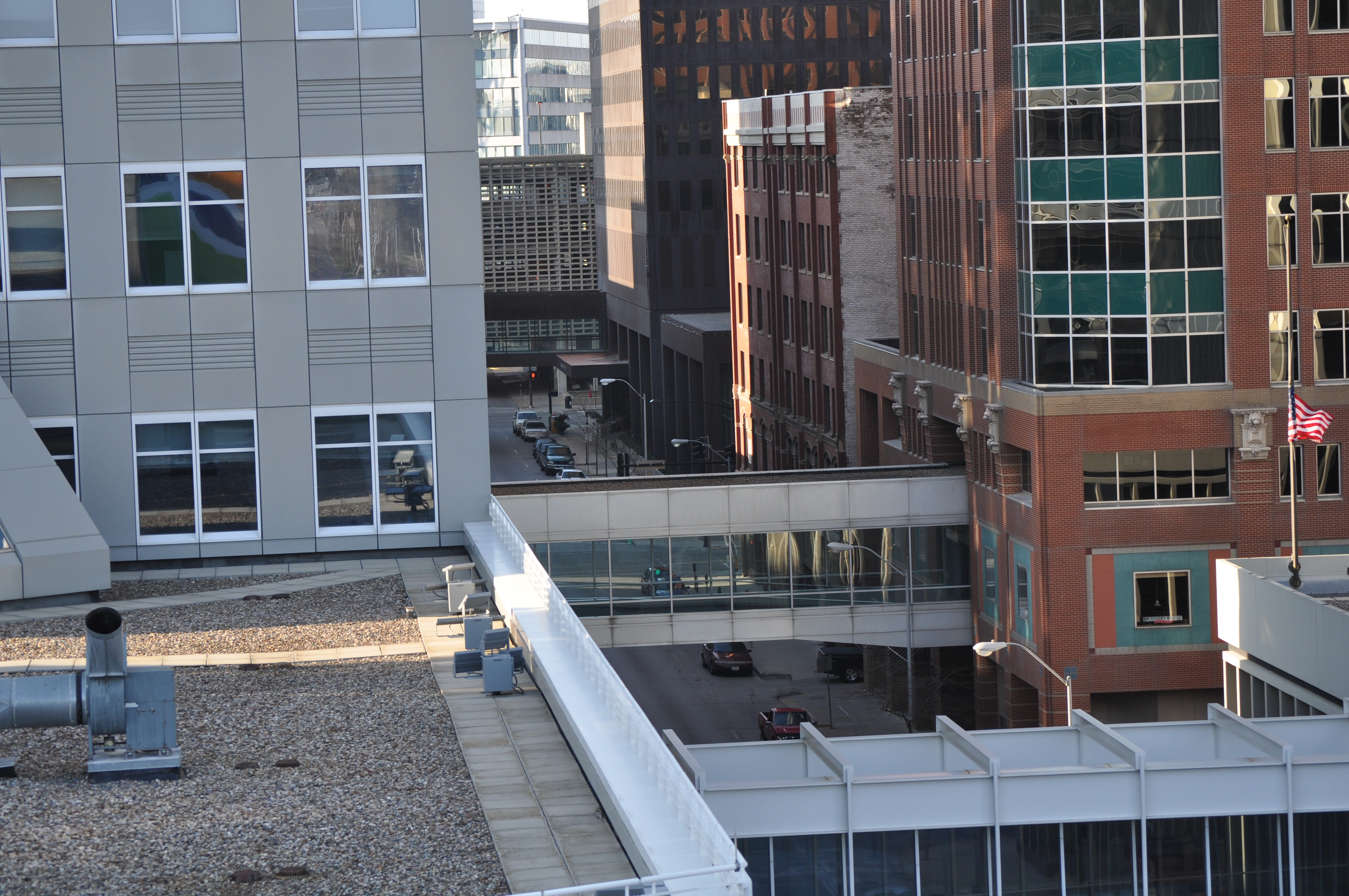 A view of buildings connected by the Des Moines Skywalk System.